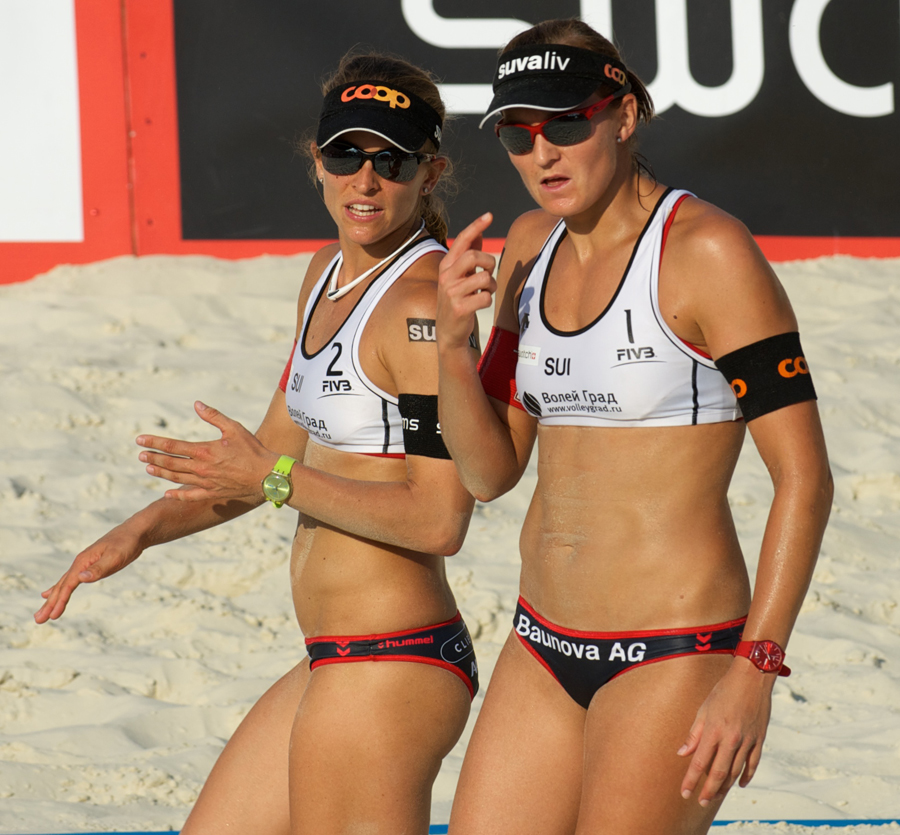 Grand Slam Moscow 2011